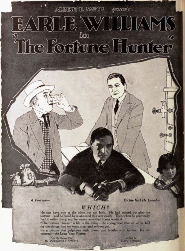 Advertisement for the American comedy film The Fortune Hunter (1920) with Earle Williams, on page 22 of the March 20, 1920 Exhibitors Herald.